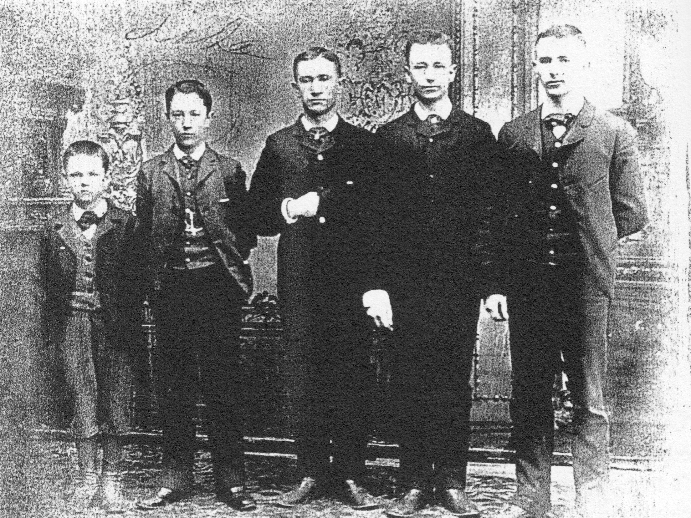 The five Landis boys of Logansport, Indiana, 1882: This photograph was first published in Logansport Journal (1902). Image shows Kenesaw Mountain Landis second from left. Future congressmen Frederick Landis is at far left and Charles Landis at fourth from left. The boys are believed to be dressed for their maternal grandfather's funeral in November 1882.